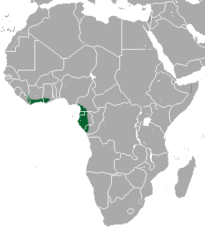 Pohle's Fruit Bat (Scotonycteris ophiodon) range